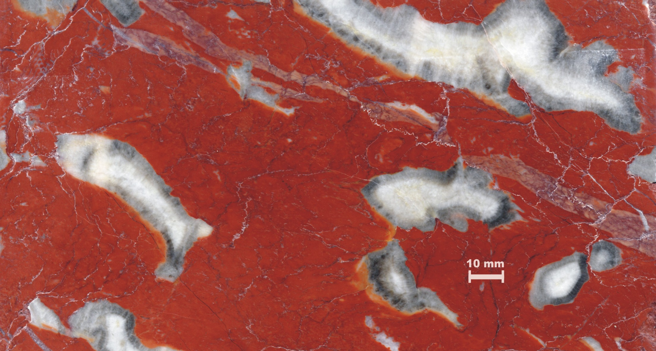 Polished section of a red carbonate rock (trade name: Incarnat rouge) from the Devonian of the Languedoc (France) with cavities (stromatactis) that are concentrically filled with gray and white calcite.